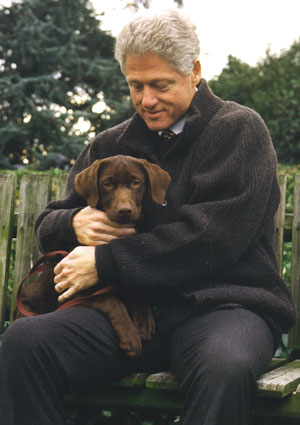 Getting acquainted with Buddy on the South Lawn, December 5, 1997.